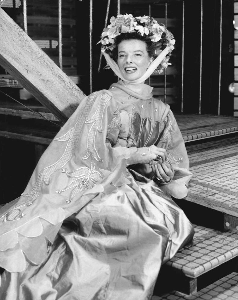 Photo of Katharine Hepburn as Beatrice in Much Ado About Nothing; a part of the American Shakespeare Fest in Stratford, Connecticut in 1958.